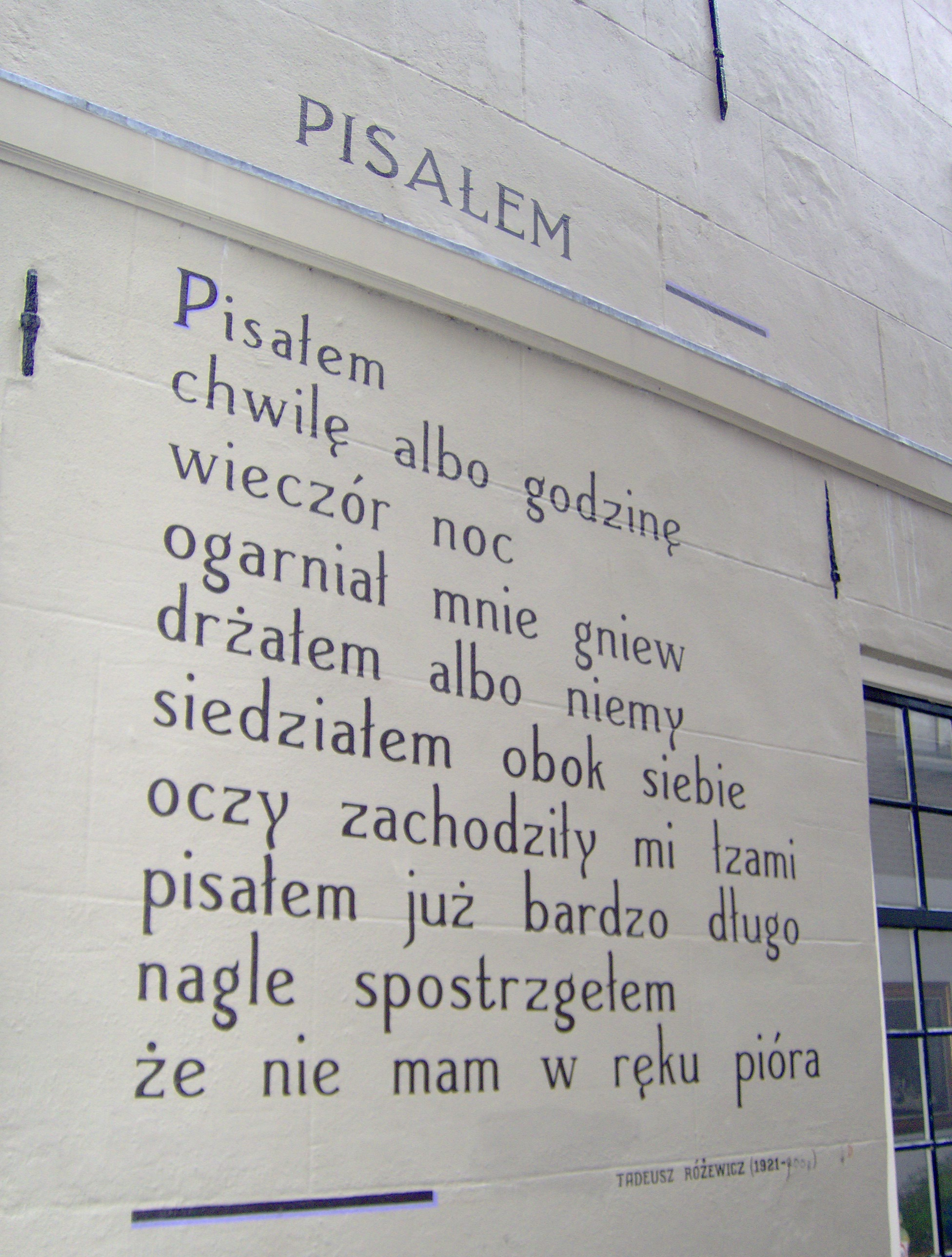 The poet Pisalem ("I wrote") by the Polish poet Tadeusz Różewicz on a wall of the building at Oude Vest 79, Leiden, The Netherlands